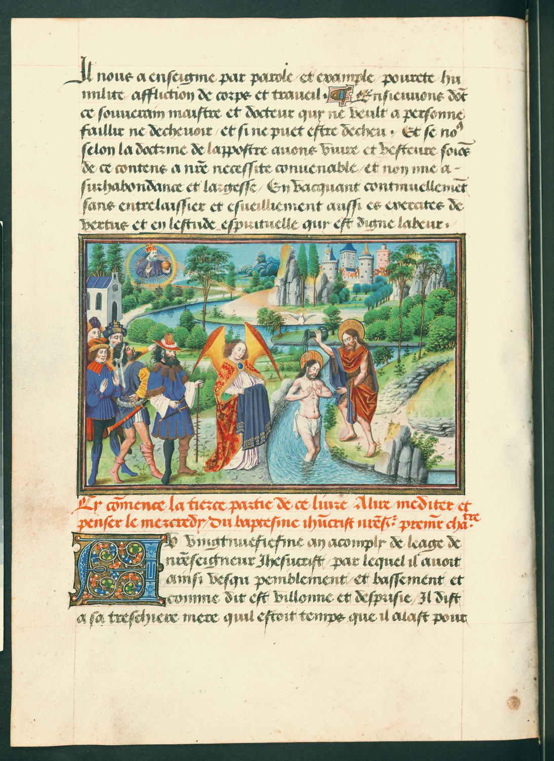 This picture is not from the Tavernier-Hours but from La Vie de Jésus-Christ, from Ludolphe de Saxe, Bruxelles, KBR, ms. IV 106, f53v